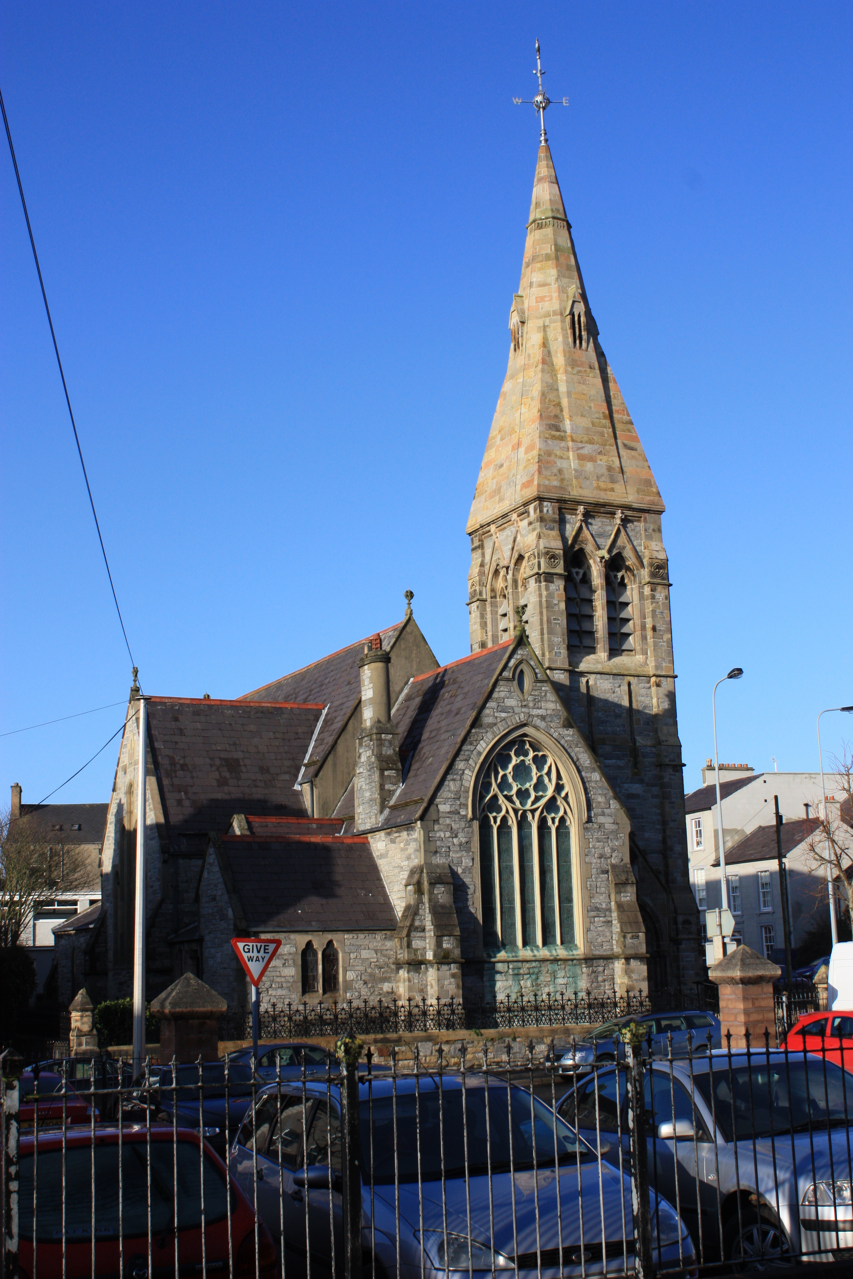 Christ Church, Church of Ireland church, Bowling Green, Strabane, County Tyrone, Northern Ireland, January 2010